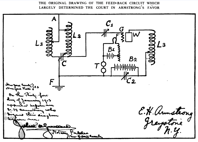 Armstrong's "feed back" drawing that convinced the patent courts to uphold his invention.